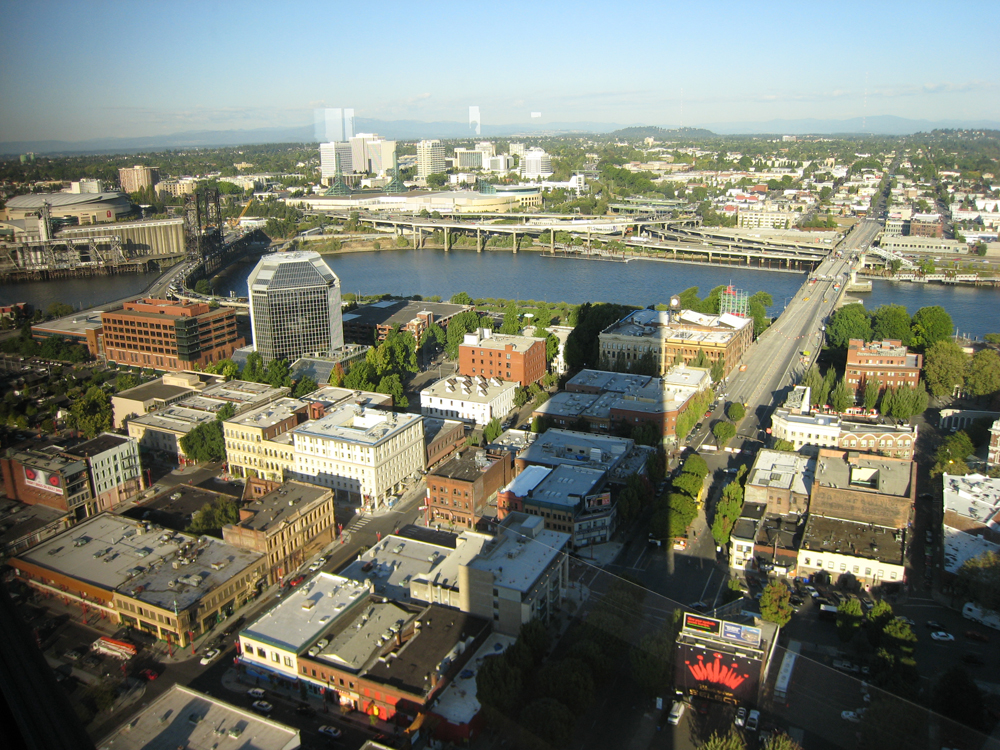 View of Portland, Oregon from Portland City Grill atop the US Bancorp Tower.